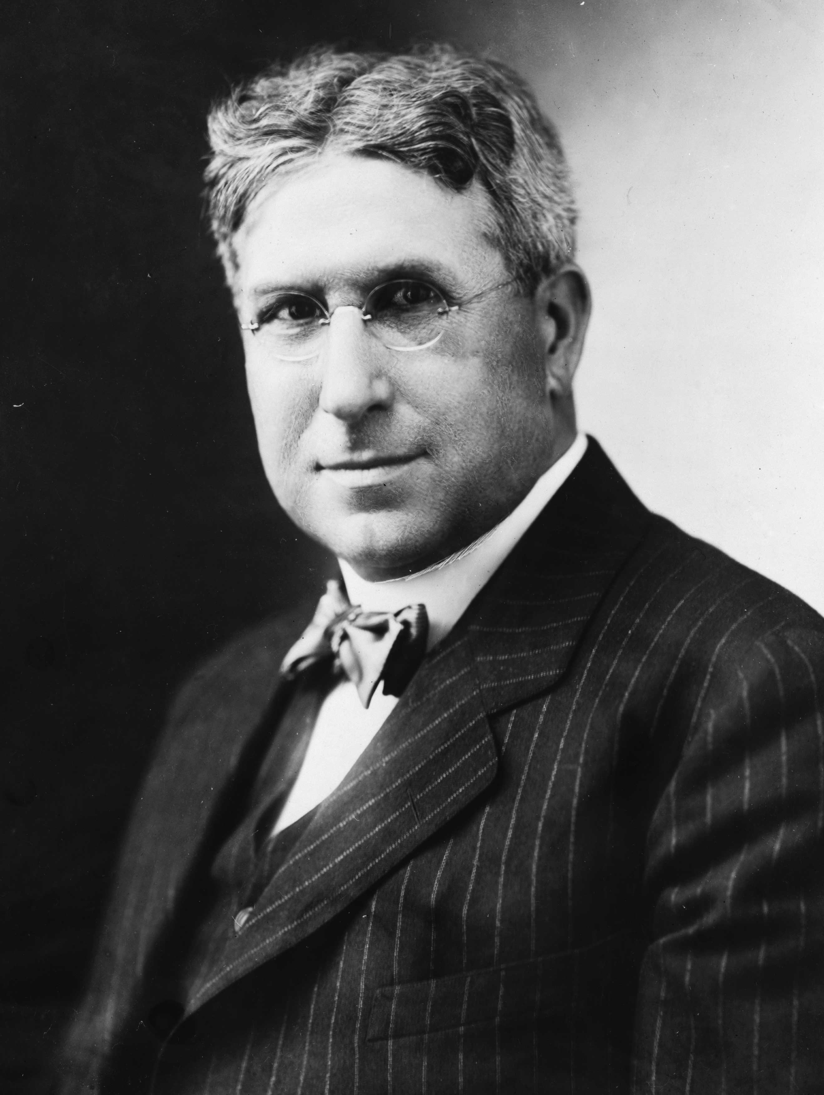 Lindley M. Garrison, former Secretary of War.